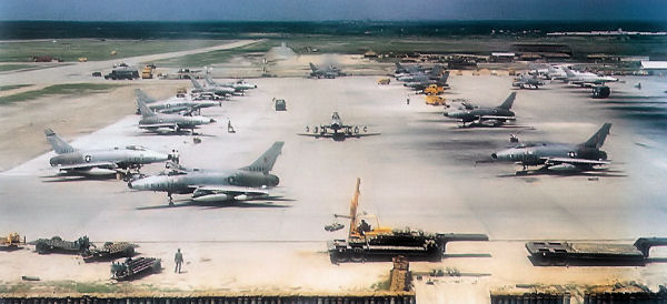 U.S. Air Force North American F-100D Super Sabres of the 416th Tactical Fighter Squadron at Da Nang Air Base, South Vietnam, 1965.